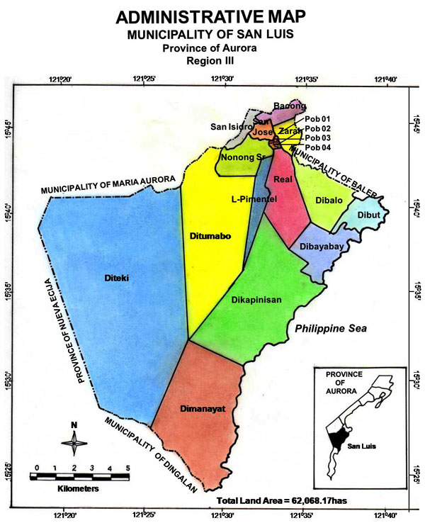 Administrative Map of the Municipality of San Luis, Aurora, Philippines.